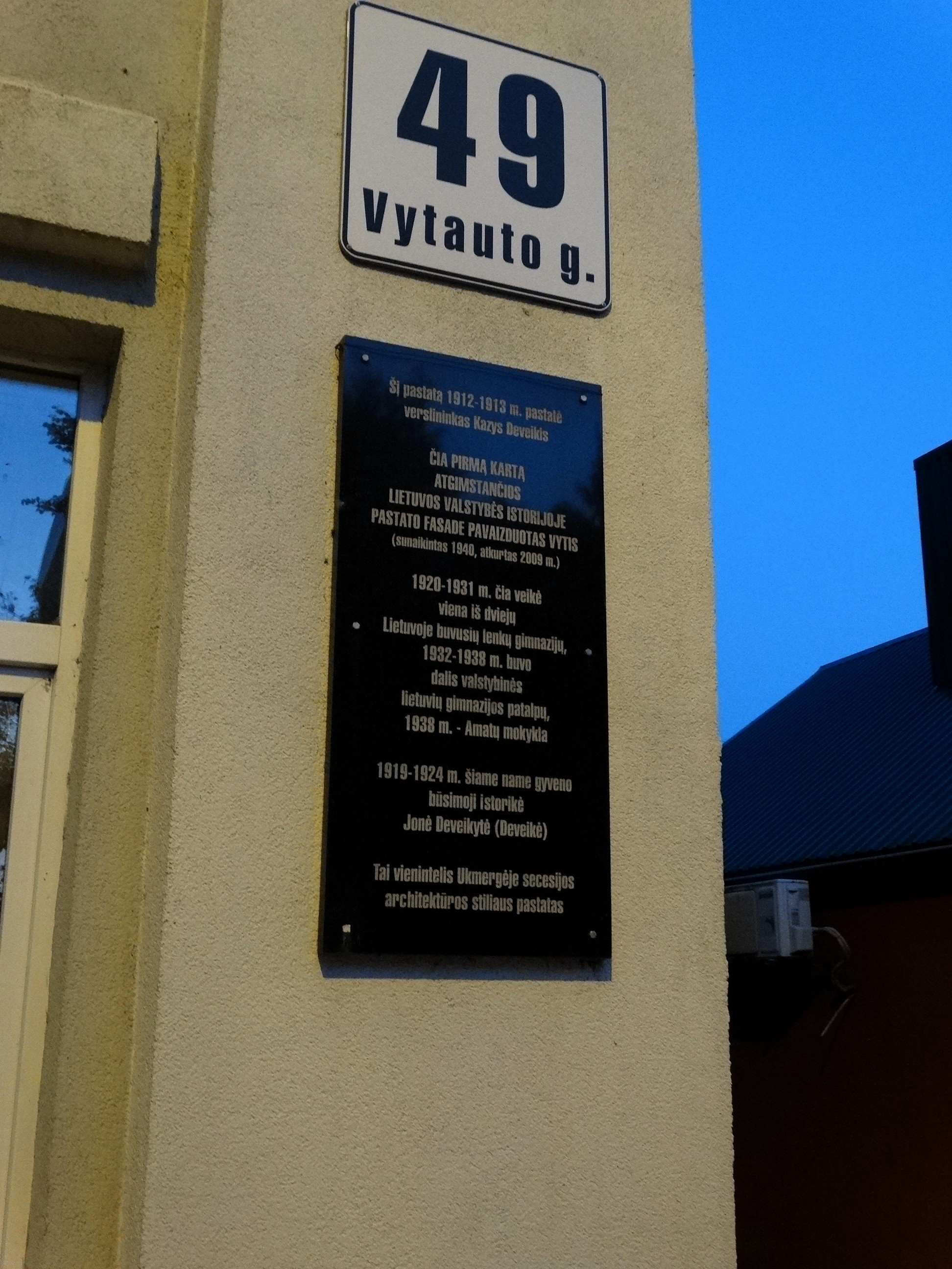 Memorial plaque on Deveikis house, Ukmergė, Lithuania